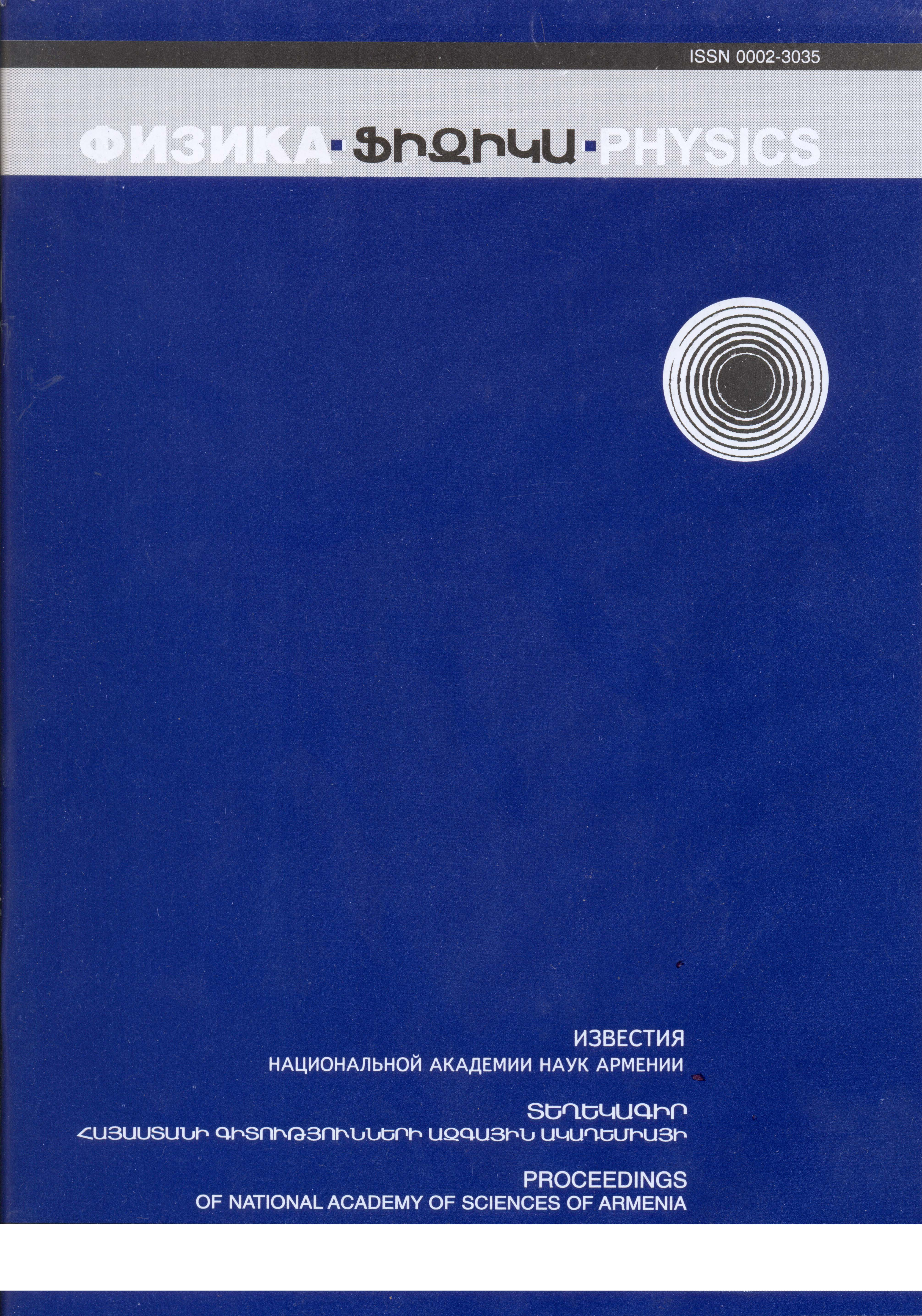 Journal of Contemporary Physics, Cover, Russian